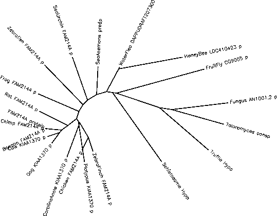 The evolutionary relationship between FAM214A and its orthologous proteins obtained from the CLUSTALW program on Biology Workbench.